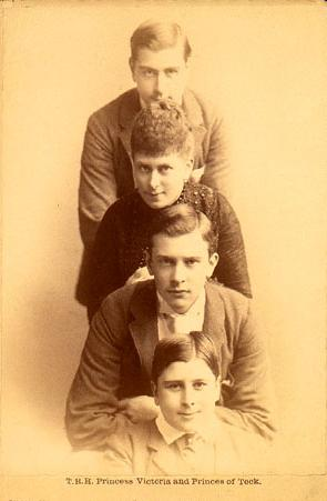 Queen Mary and her little brothers